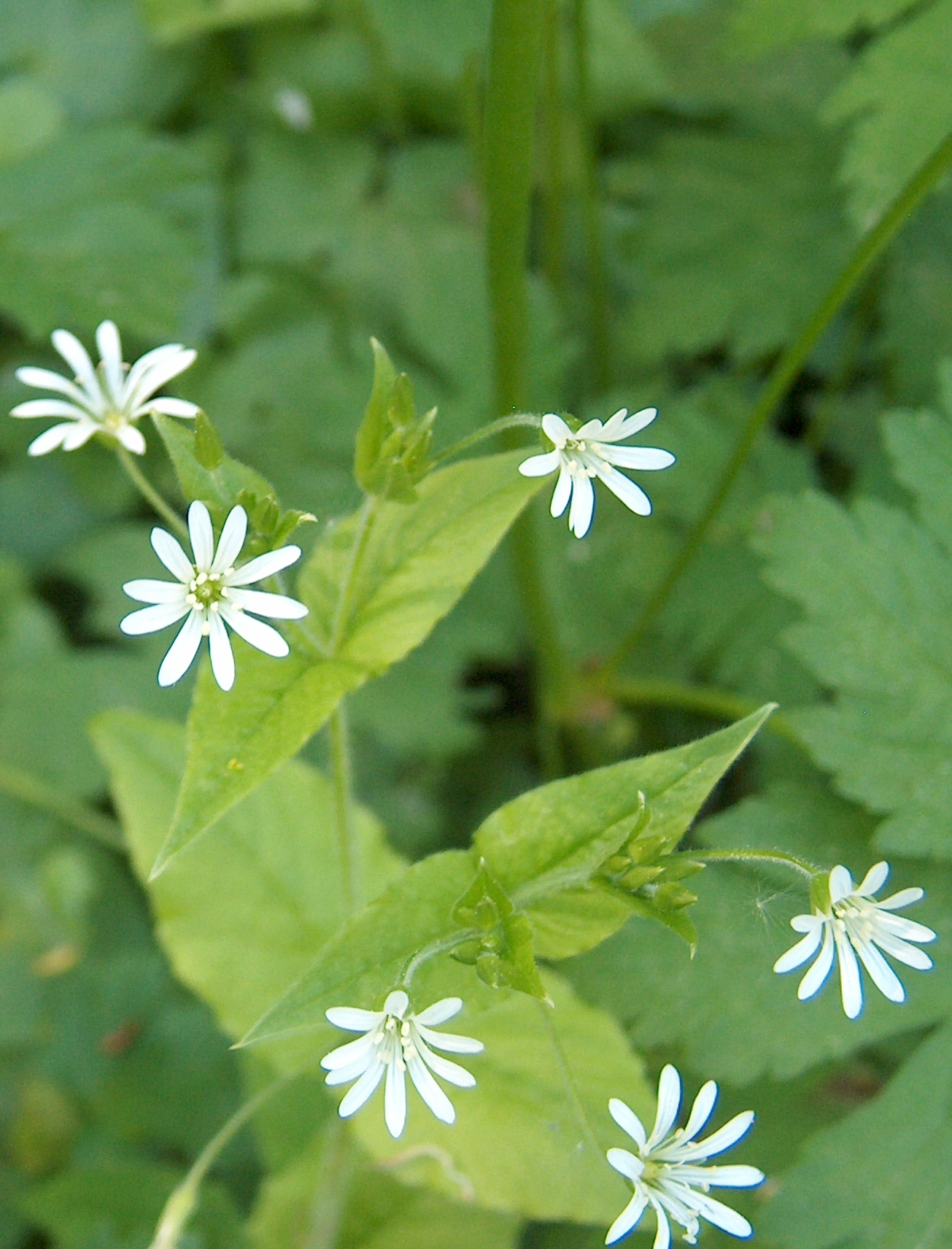 Stellaria nemorum, Wood Stichwort - Vantaa, Finland